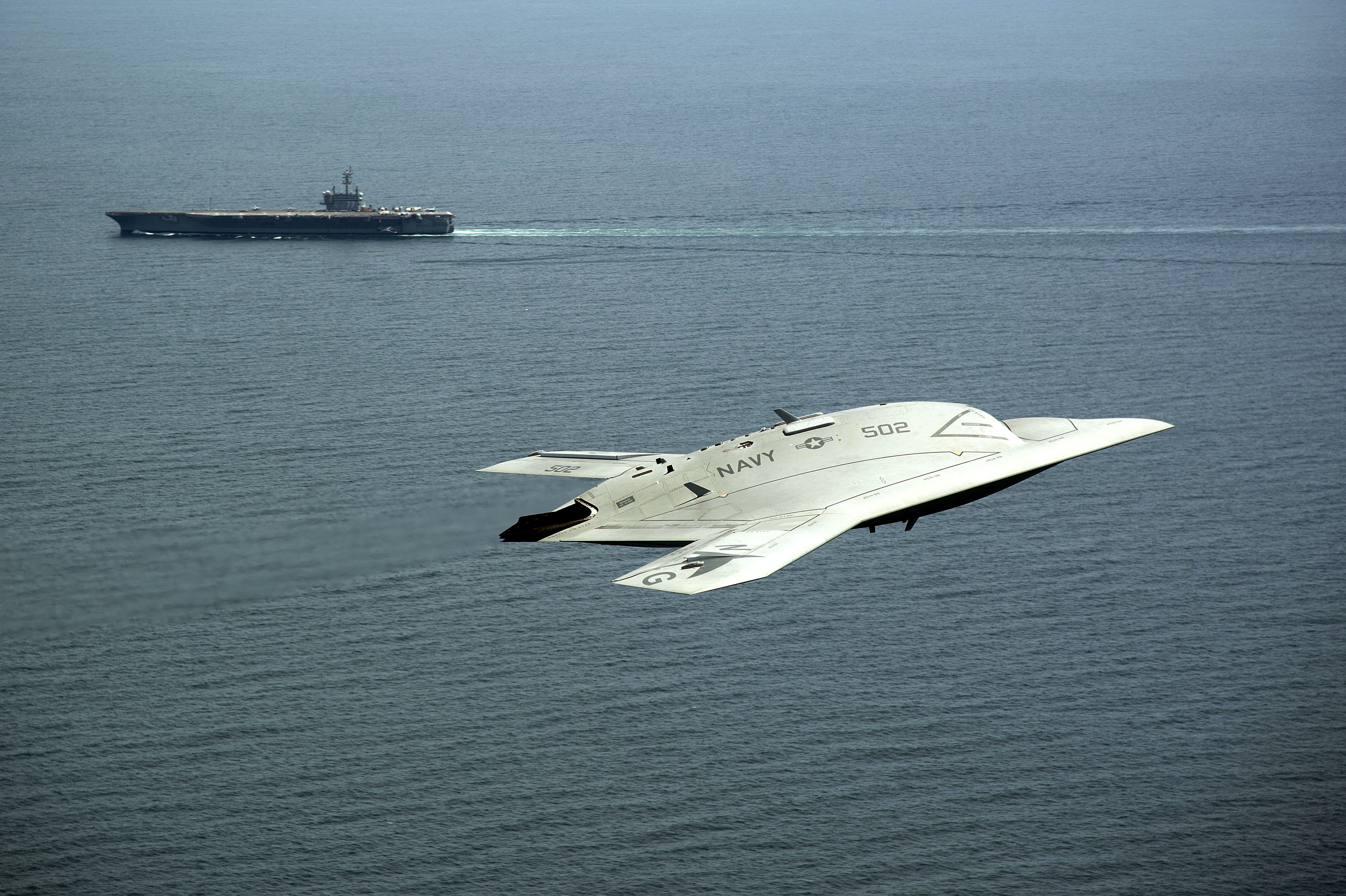 130514-N-UZ648-298 ATLANTIC OCEAN (May 14, 2013) An X-47B Unmanned Combat Air System (UCAS) demonstrator flies near the aircraft carrier USS George H.W. Bush (CVN 77). George H.W. Bush is the first aircraft carrier to successfully catapult launch an unmanned aircraft from its flight deck. (U.S. Navy photo by Erik Hildebrandt/Released)